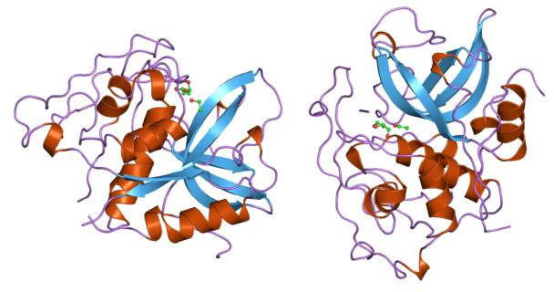 Cartoon representation of the molecular structure of protein registered with 1csb code.